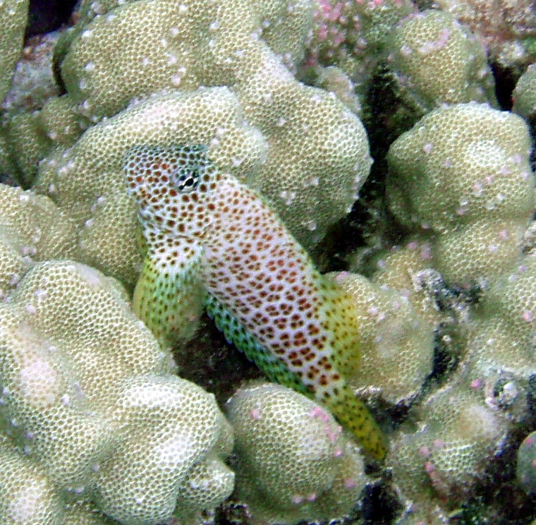 Leopard Blenny ,Exallias brevis